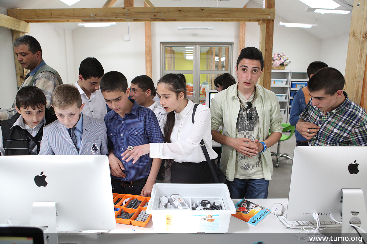 TUMOxAGBU Gyumri Center opening